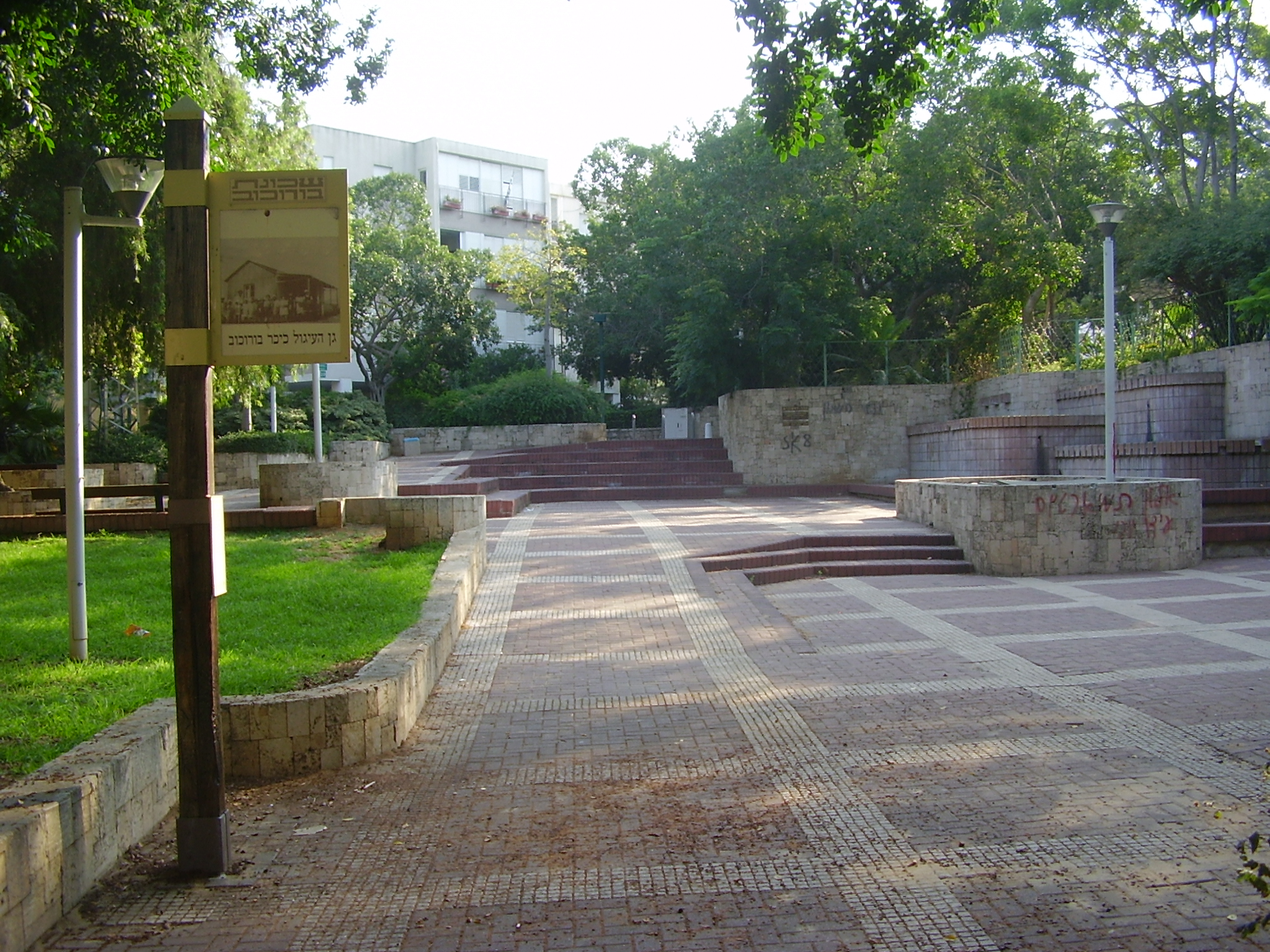 Founders garden in Givataym, Israel